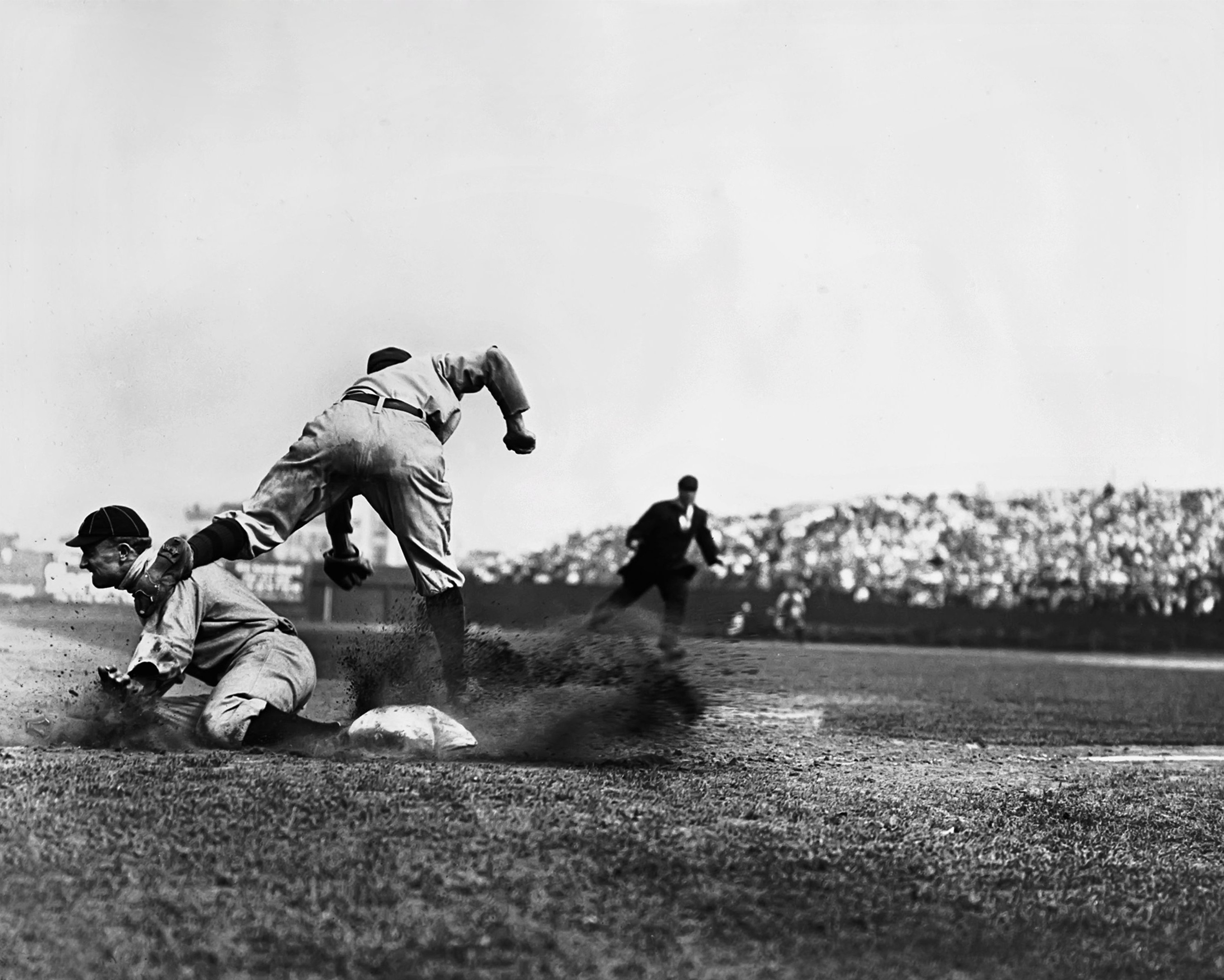 Iconic photo of Ty Cobb sliding.